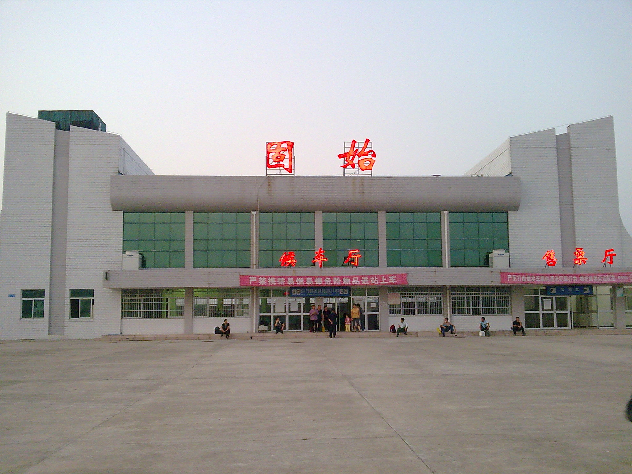 Gushi Railway Station 中文（中国大陆）: 固始火车站站前广场